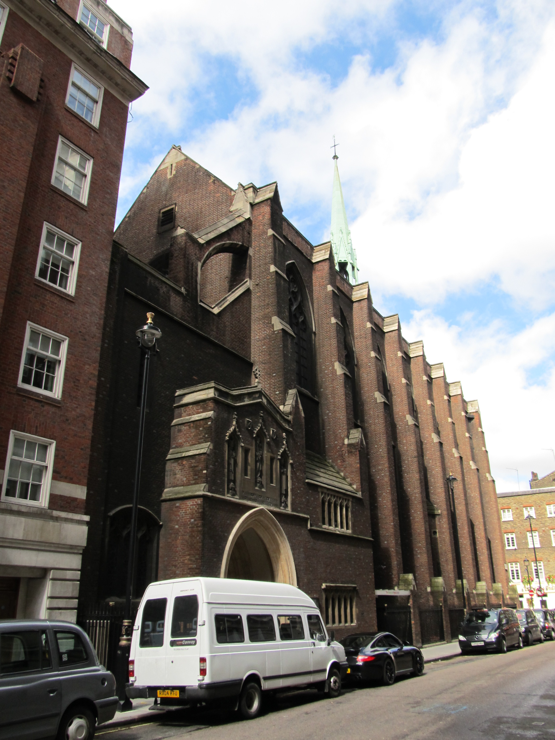 Parish church of the Annunciation, Bryanston Street, near Marble Arch, London W1, England, seen from the southwest. The church was built in 1912–13, replacing a Chapel of Ease called the Quebec Chapel, which was built in 1787.